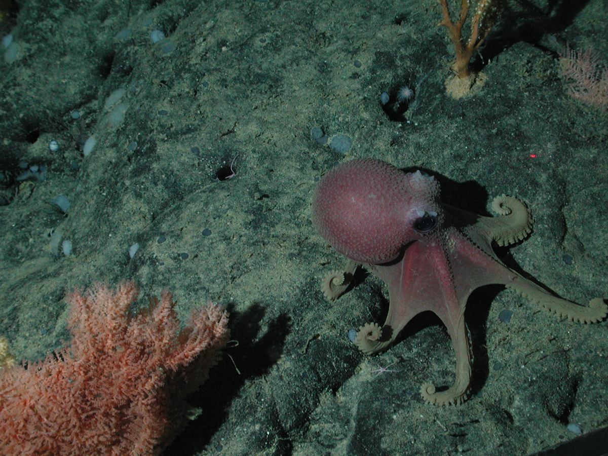 Octopus (Graneledone boreopacifica) and black coral (Trissopathes sp.) on the Davidson Seamount at 1973 meters depth.